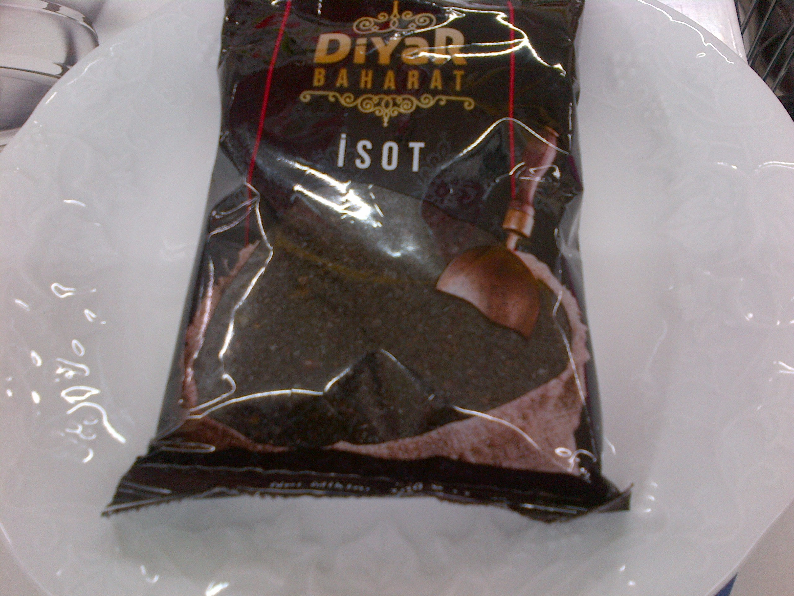 Urfa pepper or "isot" from Southeastern Turkey.